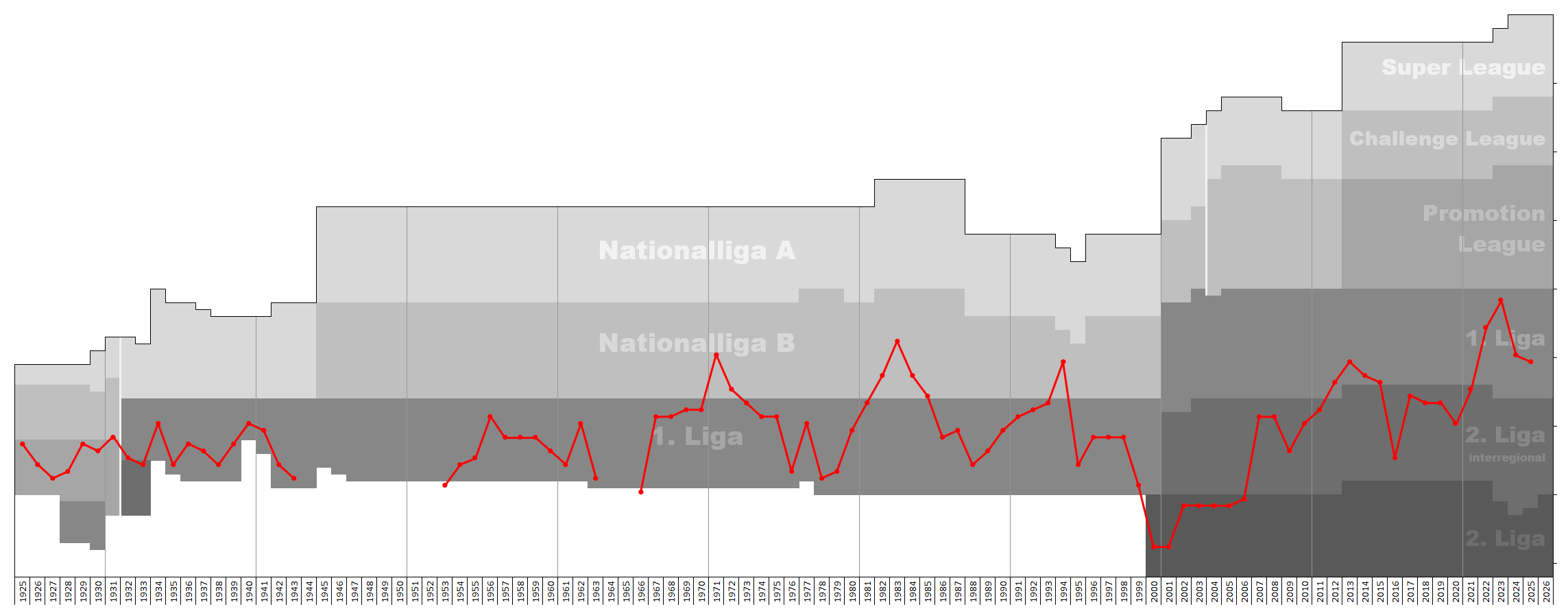 Chart of end-season table positions of FC Monthey in the Swiss football league system. Data source: RSSSF, , football.ch